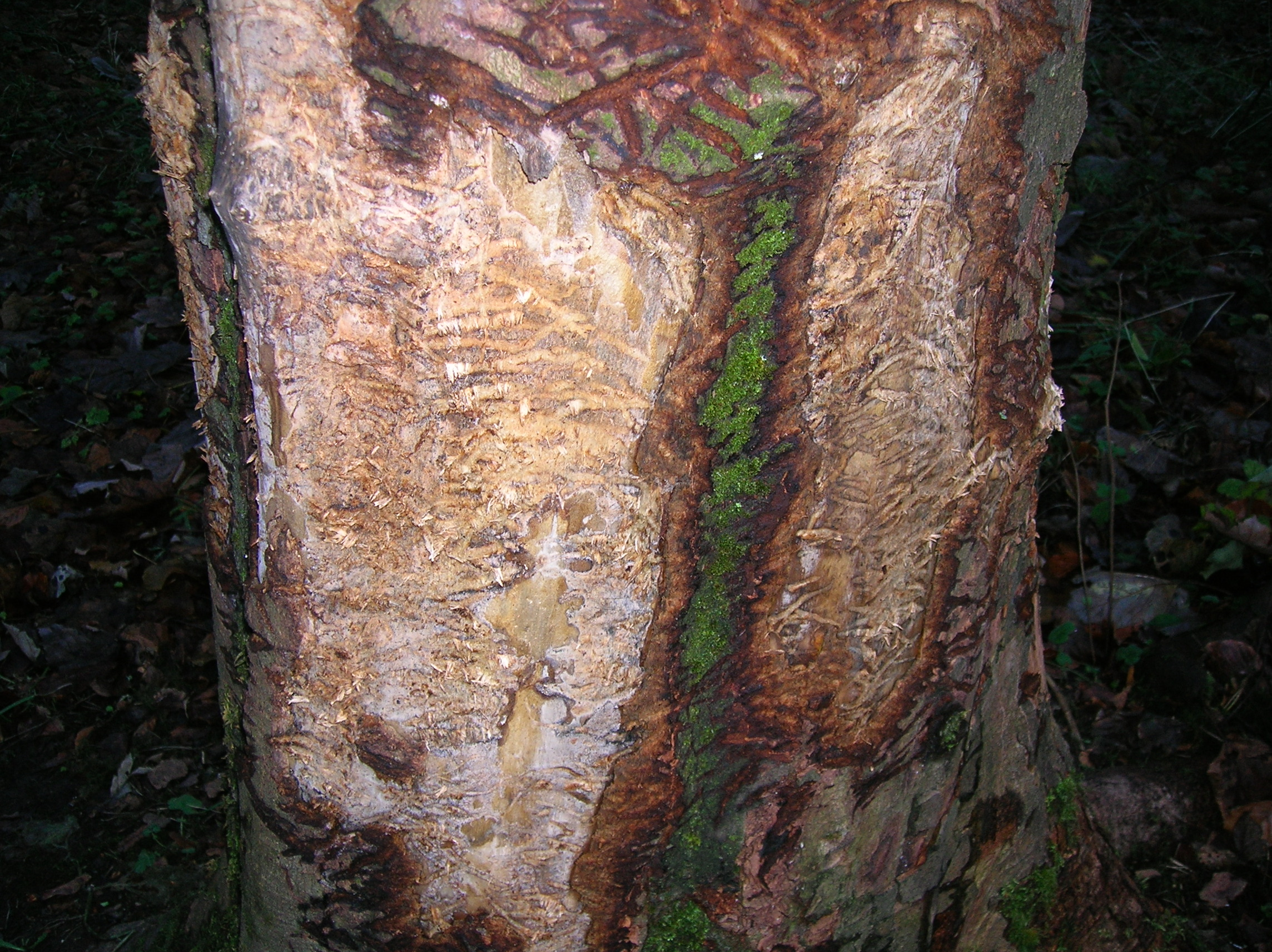 Badger scratching tree at Spier's Old School Grounds, North Ayrshire, Scotland